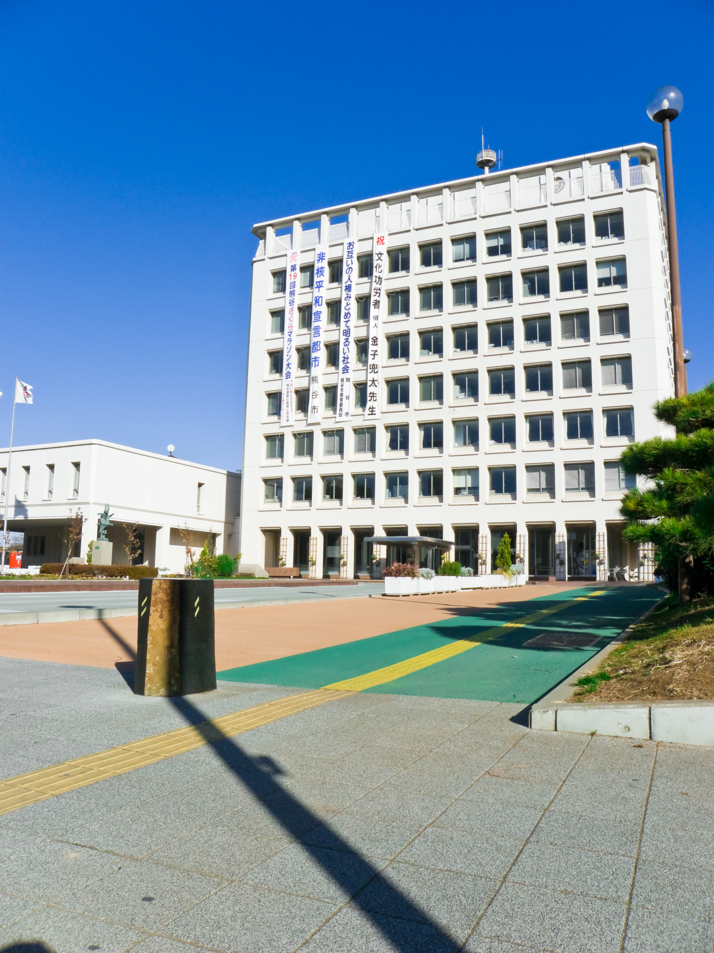 Kumagaya city hall (Kumagaya, Saitama, Japan)